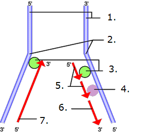 Modification from File:Dnareplication.png by Daedalus. 1. Template strands 2. Replication fork 3. DNA polymerase 4. DNA ligase 5. Okazaki fragments 6. Lagging strand 7. Leading strand